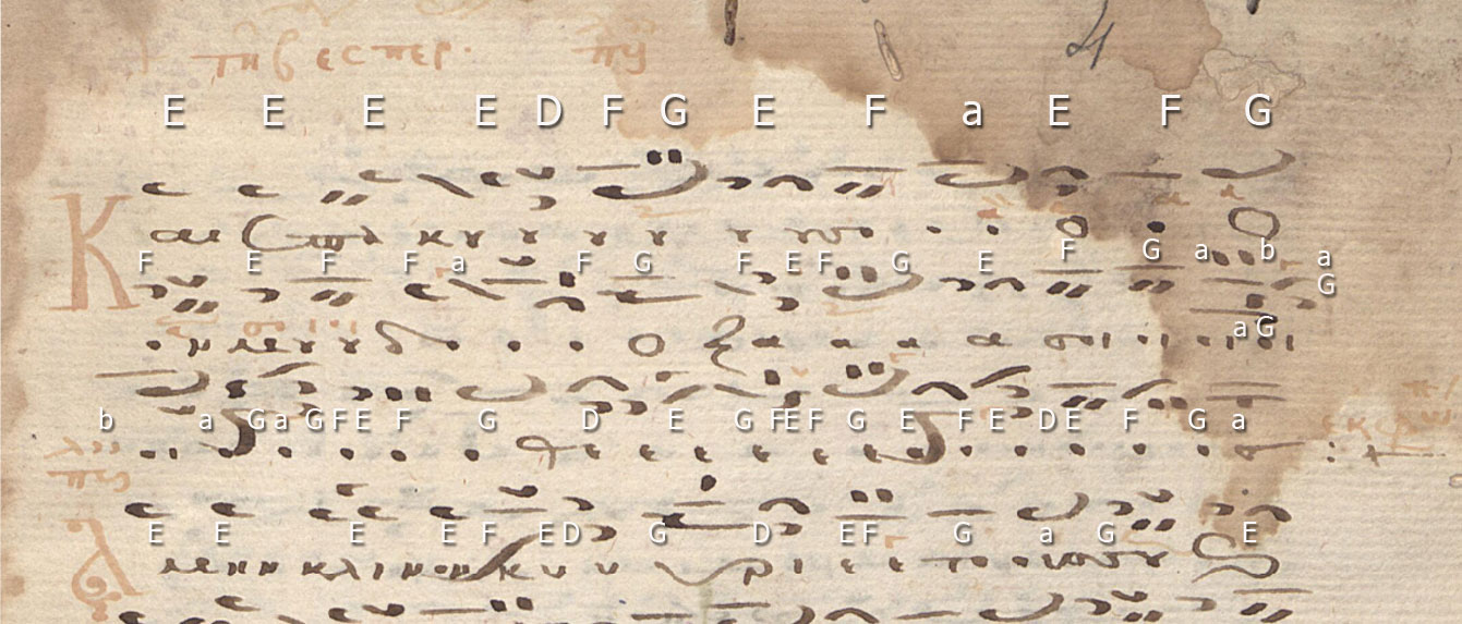 Transcription of the manuscript Athens, National Library of Greece, Ms. 2061, fol. 4 psalm recitation (troparion preceding Ps 85) during hesperinos on Monday (around 1400)